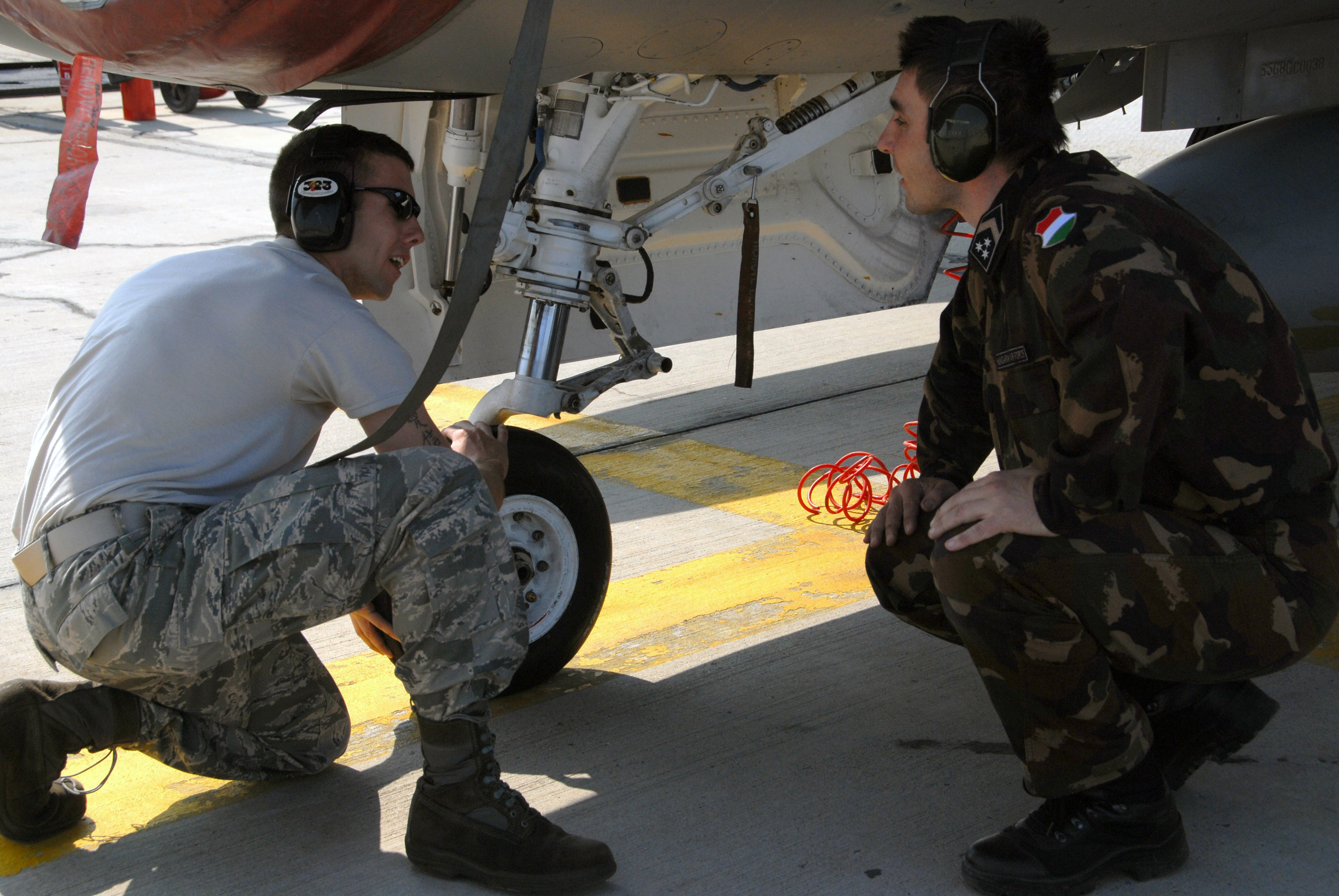 Staff Sgt. Brad Rowley, a crew chief with the 178th Fighter Wing of the Ohio Air National Guard, shows a Hungarian air force aircraft maintainer the nose landing gear on an F-16 Fighting Falcon during the Load Diffuser Exercise April 26, 2010, in Kecskemet, Hungary.